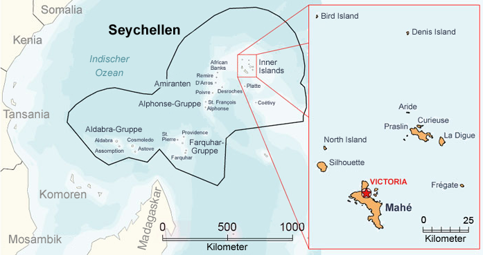 Map of the Seychelles